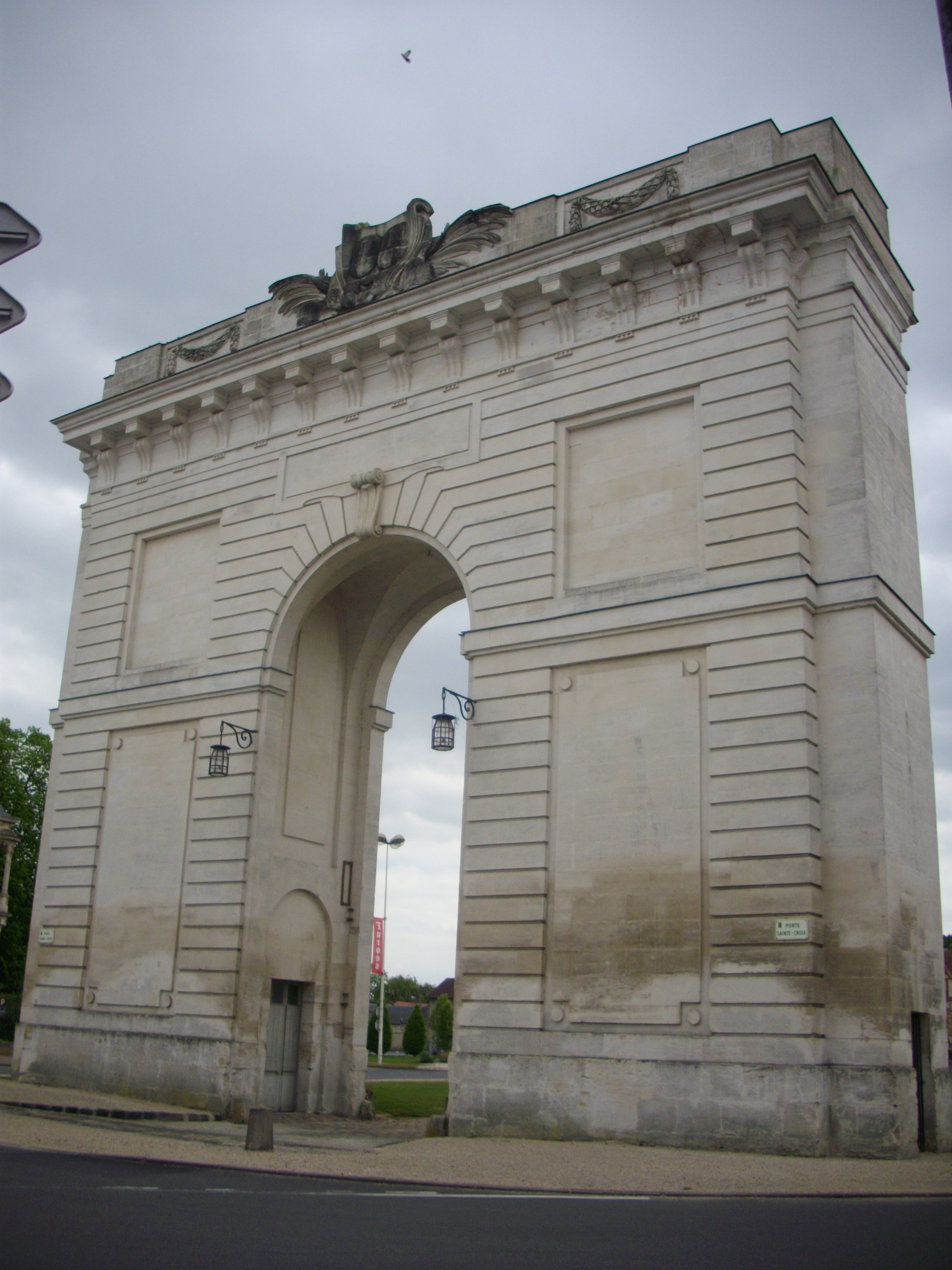 Holy cross gate in Châlons-en-Champagne (Marne, France) .